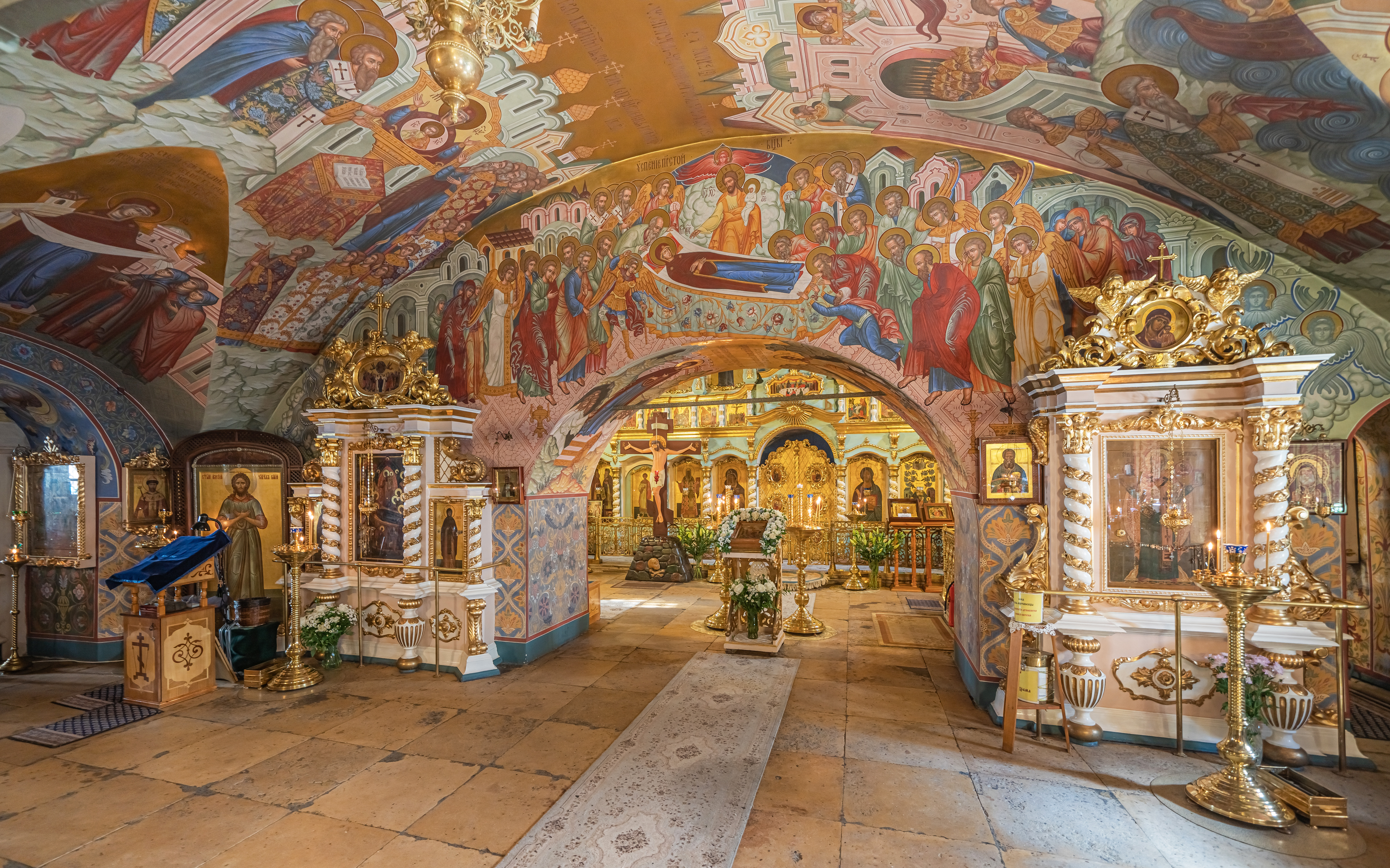 Interior of Assumption Church in Putinki in Moscow, Russia